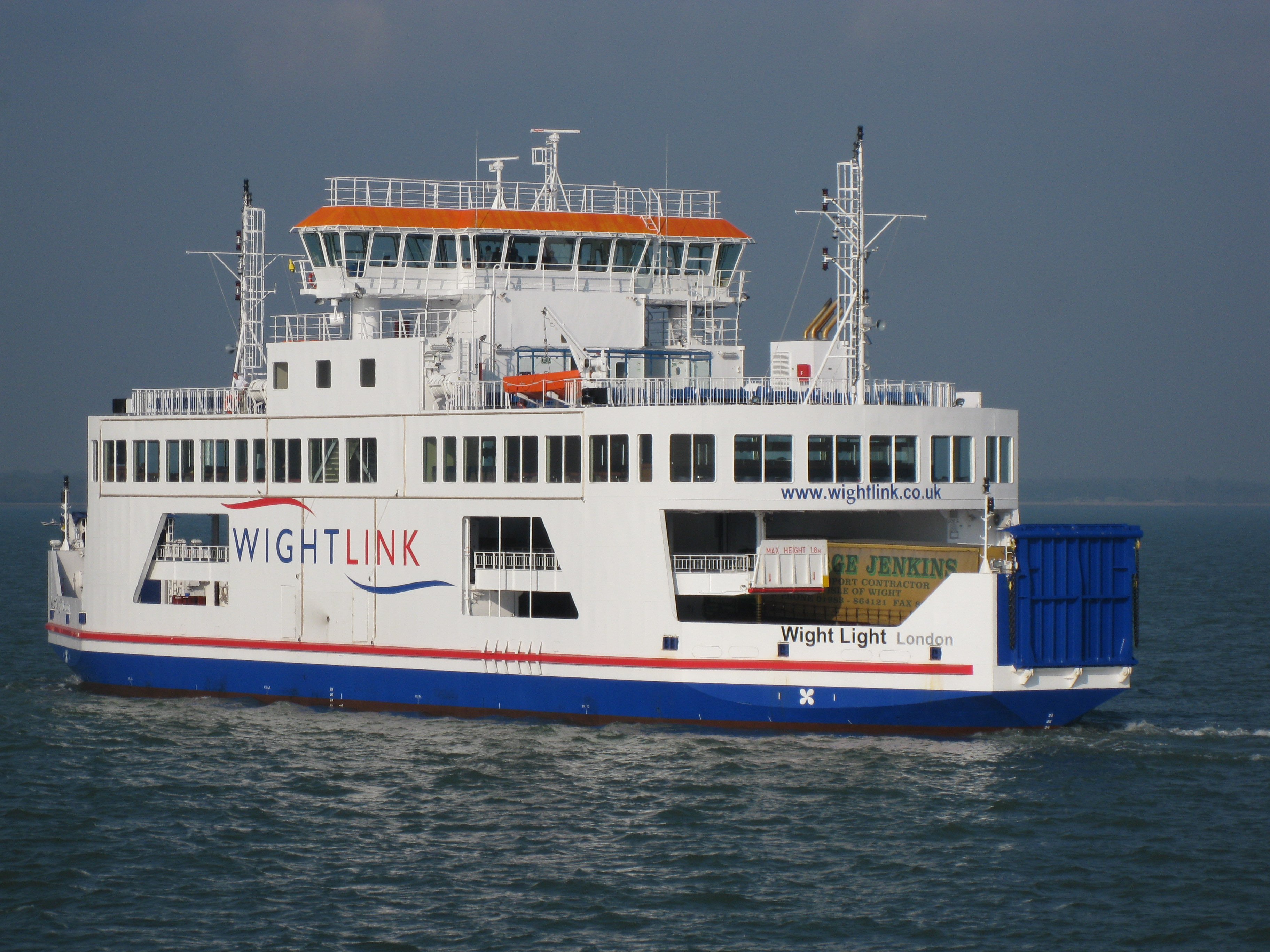 MV Wight Light, Wightlink's new ferry, undergoing sea trials in preparation for passenger service on the Lymington to Yarmouth route starting in November 2008